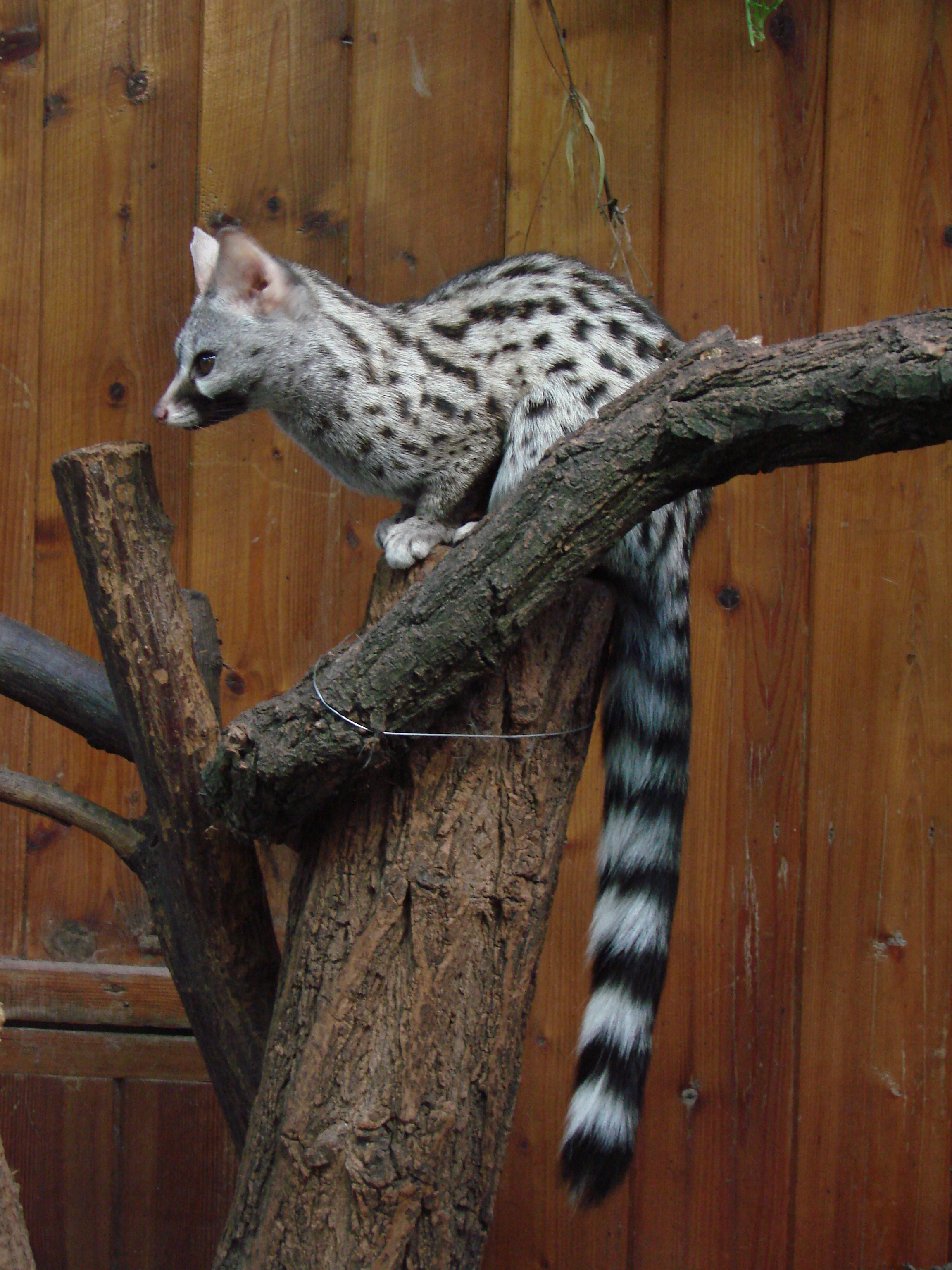 Animal species: Common Genet (Wrocław zoo)